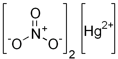 chemical structure of mercury(II) nitrate